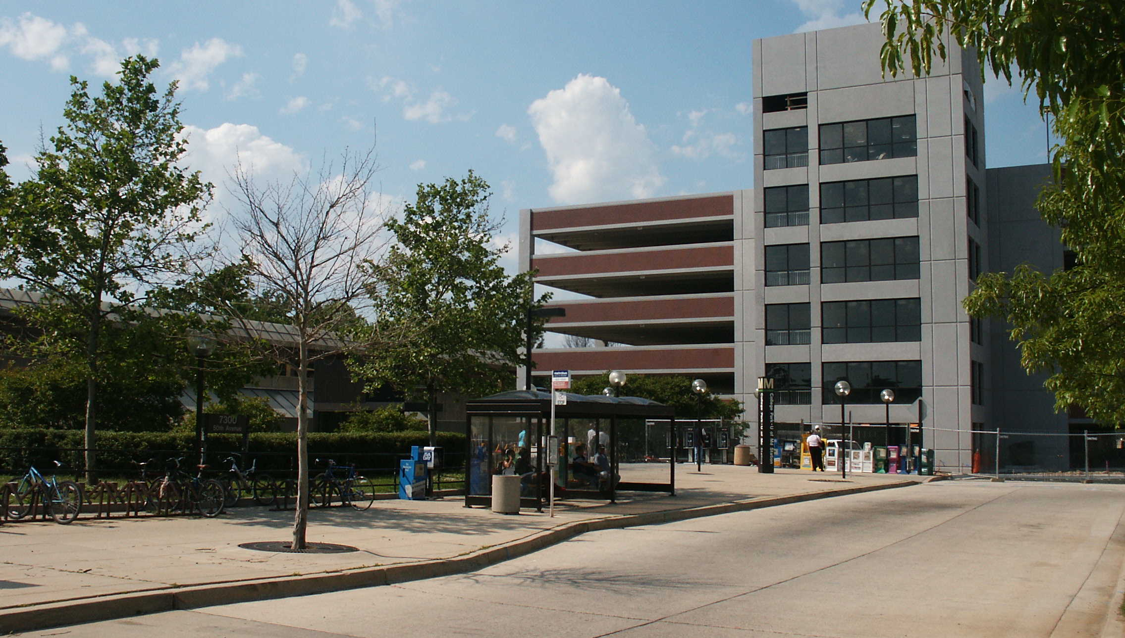 This photo depicts the east side of the College Park Station on the Washington Metro Green Line. Source: Gyrofrog, May 27, 2005